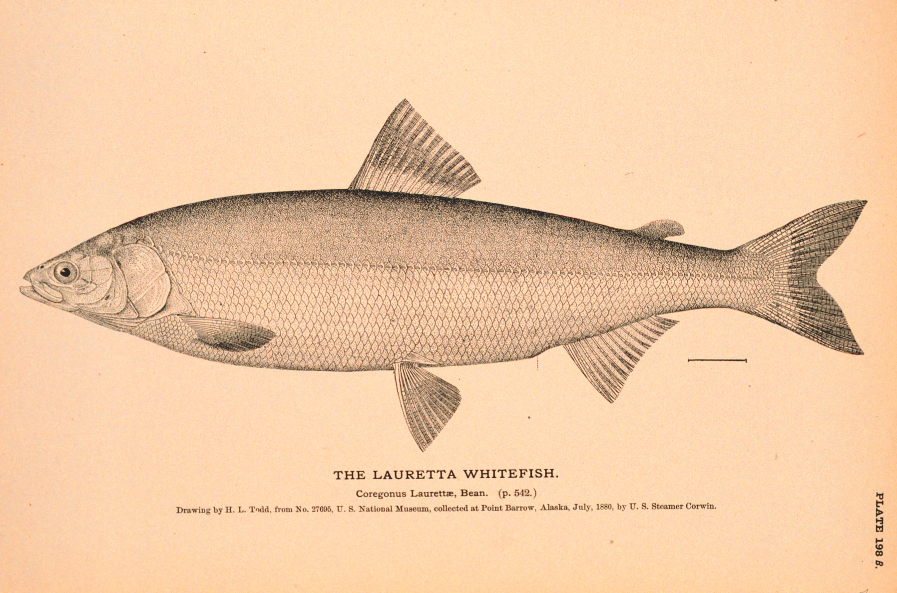 Original illustration of Bering cisco, Coregonus laurettae, from the Natural History of Useful Aquatic Animals.